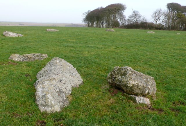 Kingston Russell Stone Circle View N across the western half of the circle showing slightly less than half of the 18 stones all of which are lying flat. Geologically the stones are sarsens or conglomerate in nature. The circle is late neolithic or Bronze Age.